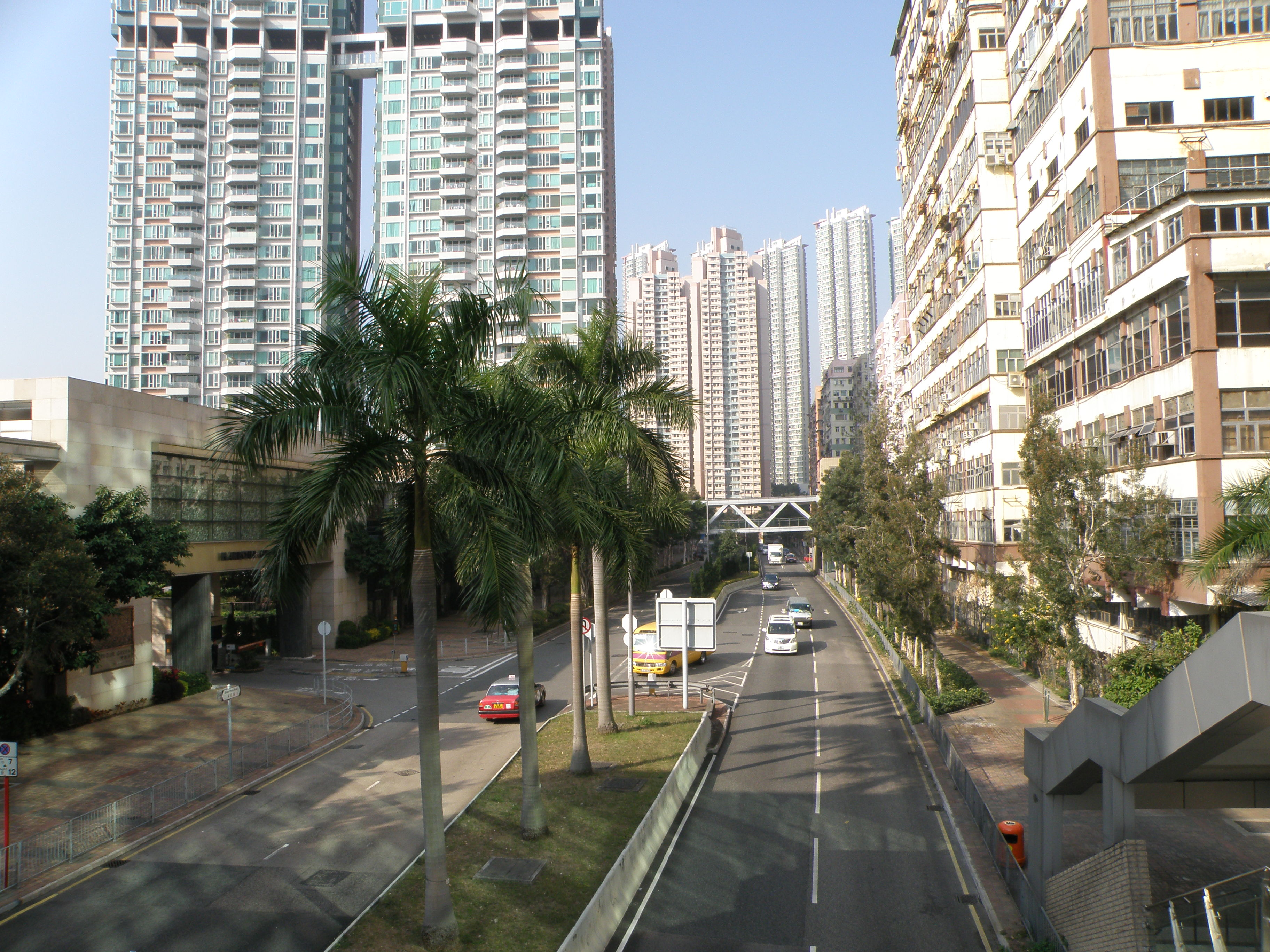 Sham Mong Road in Tai Kok Tsui, Hong Kong.